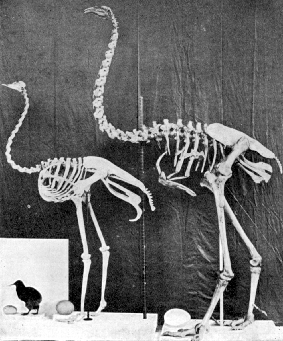 Comparison of a kiwi (Apteryx sp., Apterygidae, Struthioniformes), ostrich (Struthio camelus, Struthionidae, Struthioniformes), and giant moa (Dinornis giganteus, Dinornithidae, Dinornithiformes), each with its egg.